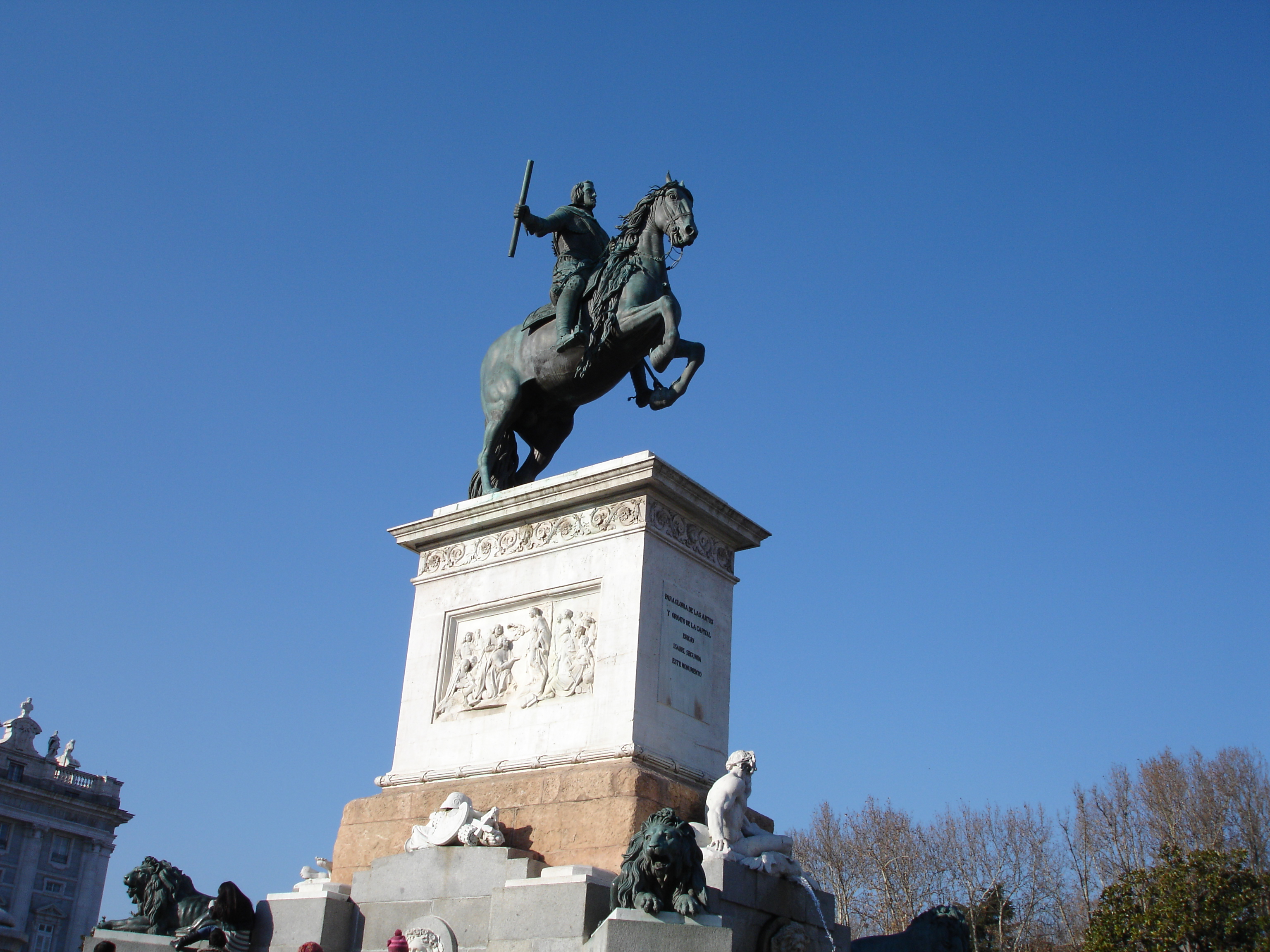 Equestrian statue of King Philip IV, Madrid